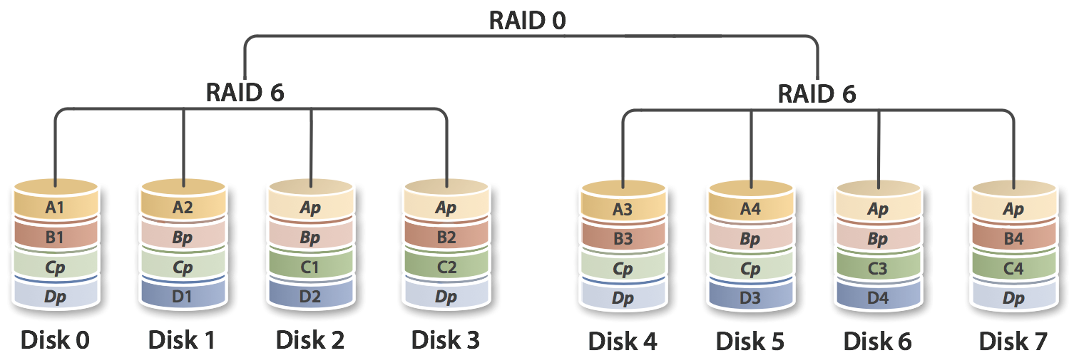 RAID-60 example consisting of two sets of four drives each I made this and give it for free use. I used similar, and excellent images, made by User:Kauberry to cut and paste this diagram that was needed to explain RAID 60. Thanks Kauberry! -File:RAID_50_4_drive_example.png -File:RAID_50.png